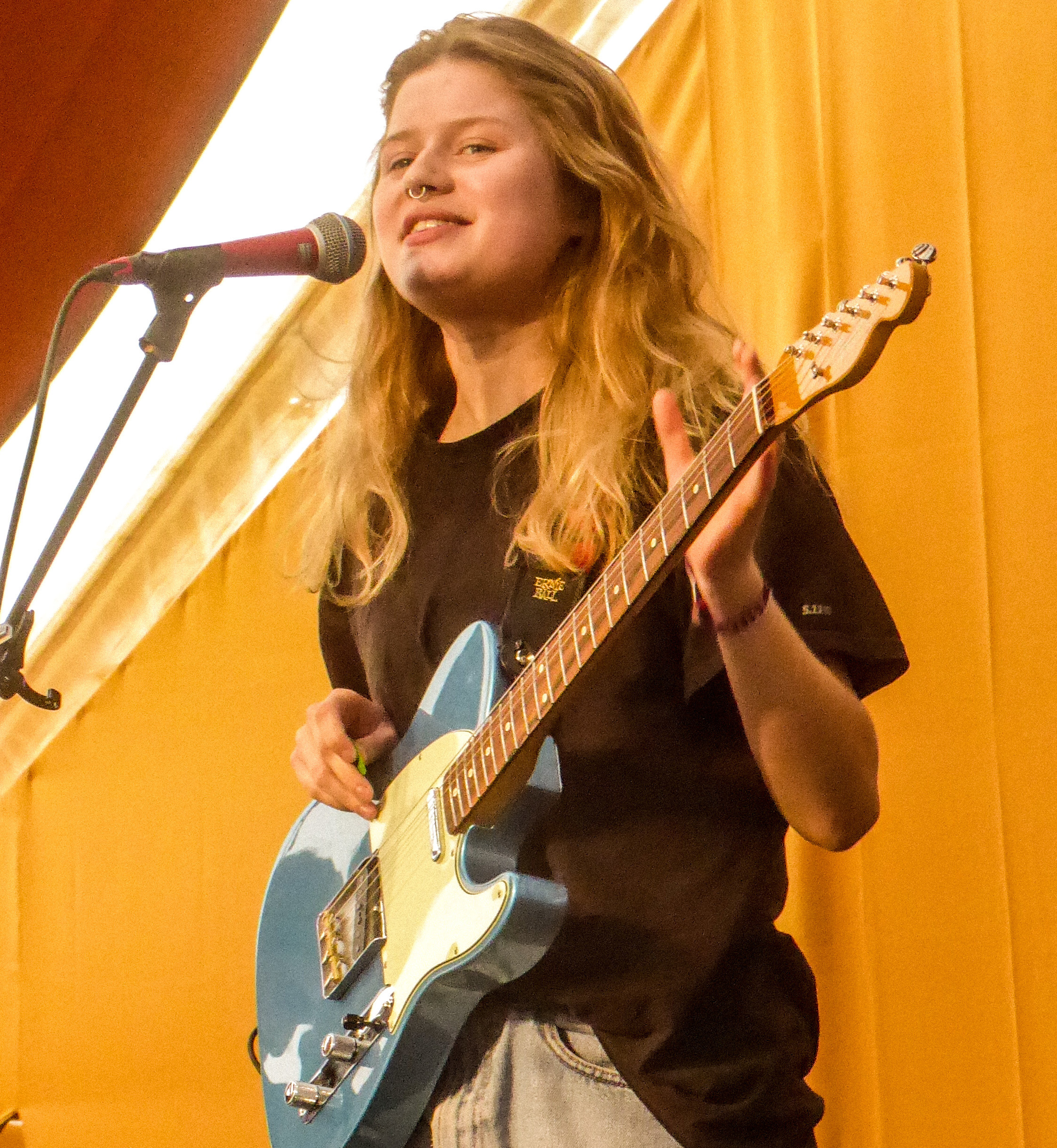 Girl in Red at End of the Road Festival 2019